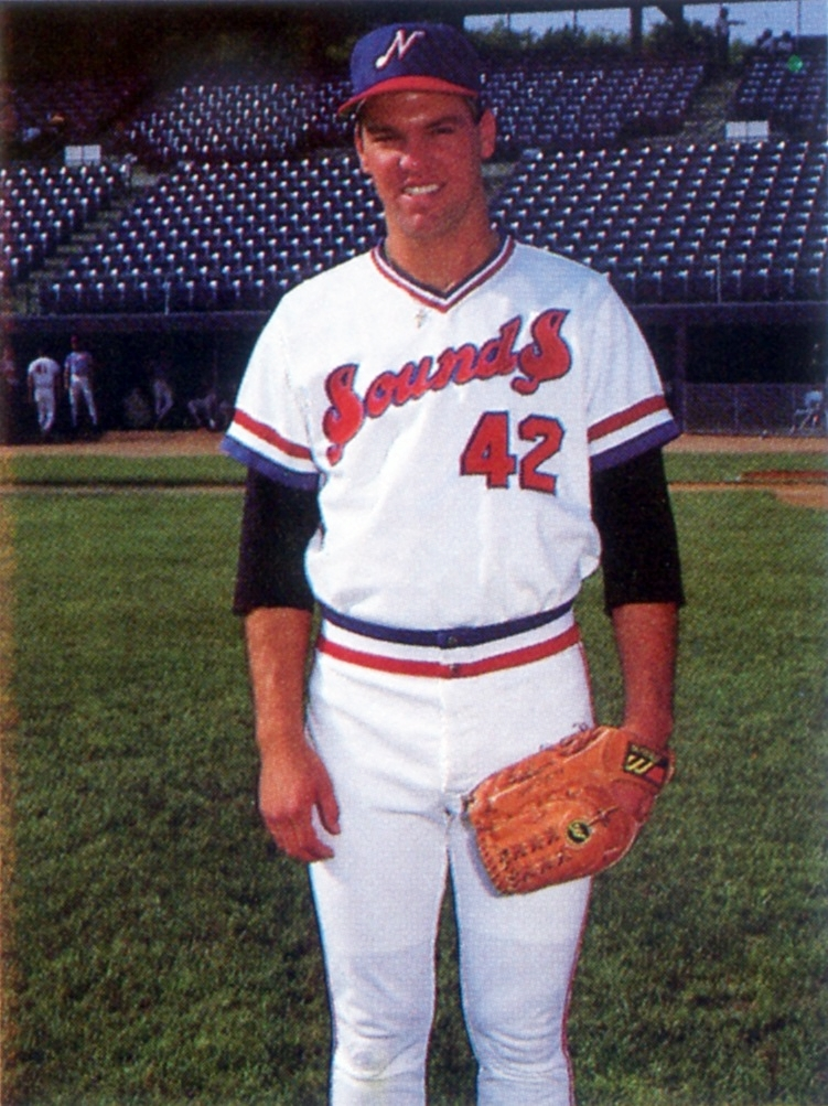 Pitcher Rich Monteleone of the 1985 Nashville Sounds Minor League Baseball team of the American Association